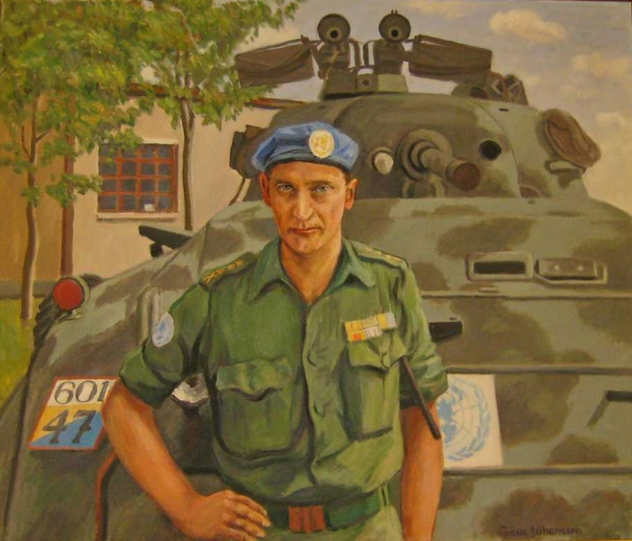 Portrait depicting Bengt Fredman. On the frame there is a small plaque with the text: "ÖvL B. FREDMAN, K-VILLE 31/12 1962". On the back of the frame it is written with a pen: "Belongs to the UN veterans Congo (2001) Donated by Folke Norberg to the UN veterans Congo at the annual meeting in 2001. The portrait depicts Bengt Fredman, Lieutenant Colonel and battalion commander of the 18th Battalion. The portrait is painted by Gösta Johansson, and a photograph has served as a model. The photograph was taken after the storming of Kaminaville on 31 December 1962.